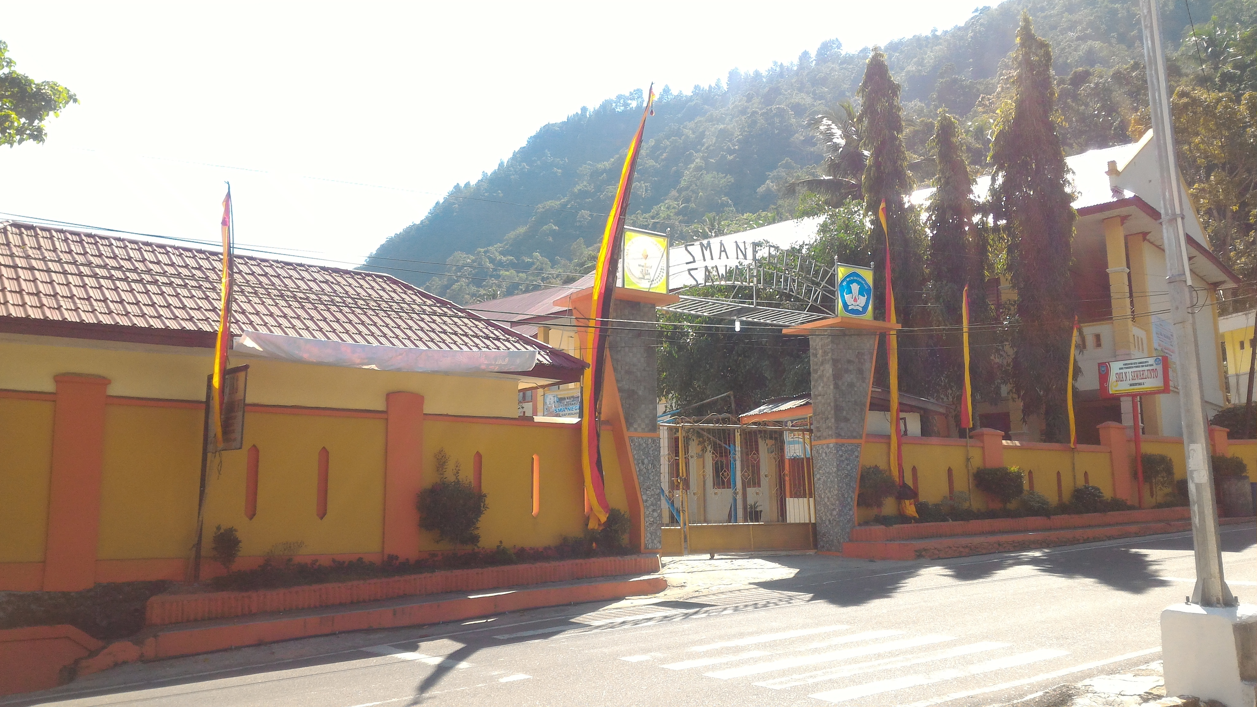 Expression error: Unrecognized word "gerbang".